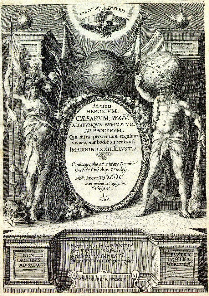 Title page of "Atrium heroicum", a collection of portraits of notable persons of the era